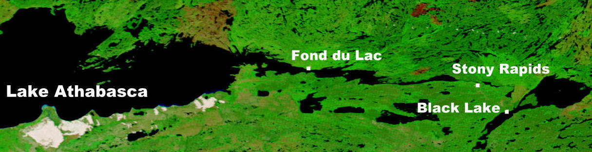 Portion of NASA map showing the eastern portion of Lake Athabasca in Saskatchewan (Captions have been added by Kayoty)